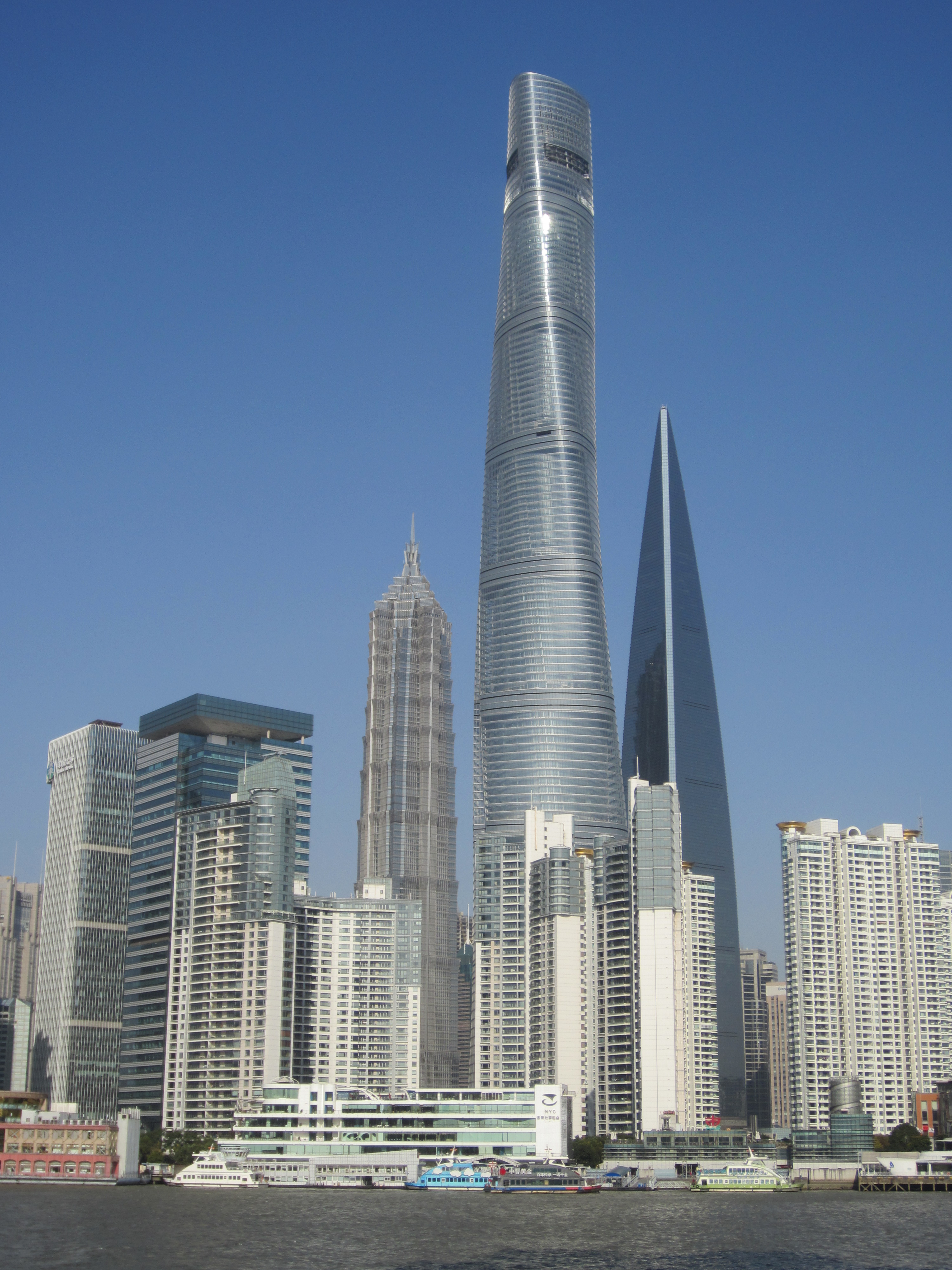 Shanghai, China, December 2015